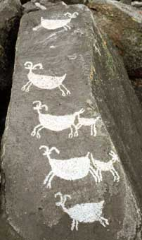 Coso petroglyphs of bighorn sheep — at the Coso Rock Art District National Historic Landmark, in the northern Mojave Desert and southern Inyo County, California. Protected within the Naval Air Weapons Station China Lake, with occasional civilian public tours. More than 250,000 pre-Columbian rock art petroglyphs are located on 36,000 acres of the Coso Range and surroundings.